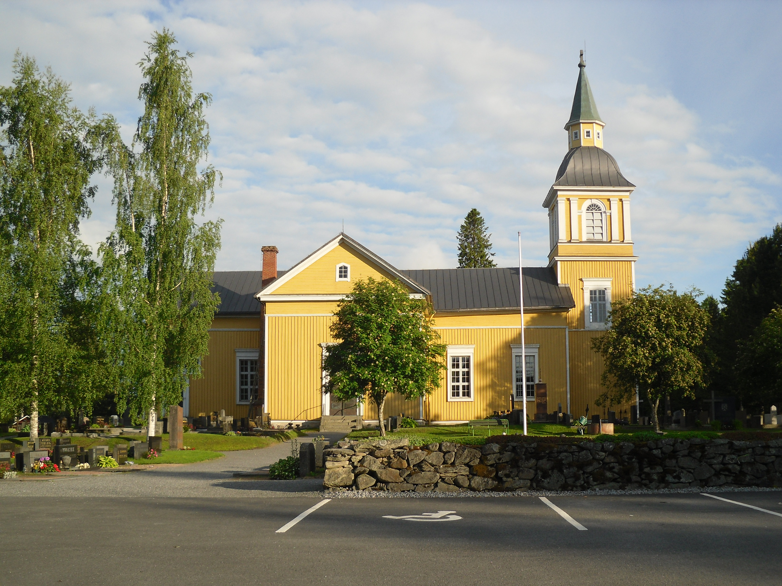 Kiikoinen Church in Sastamala, Finland